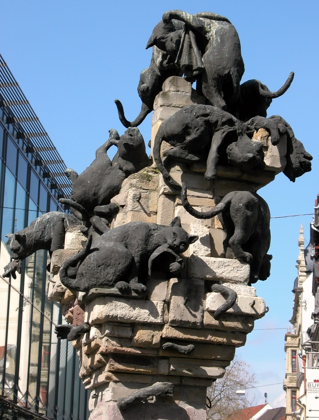 Brunswick, Germany: Pillar with cats.